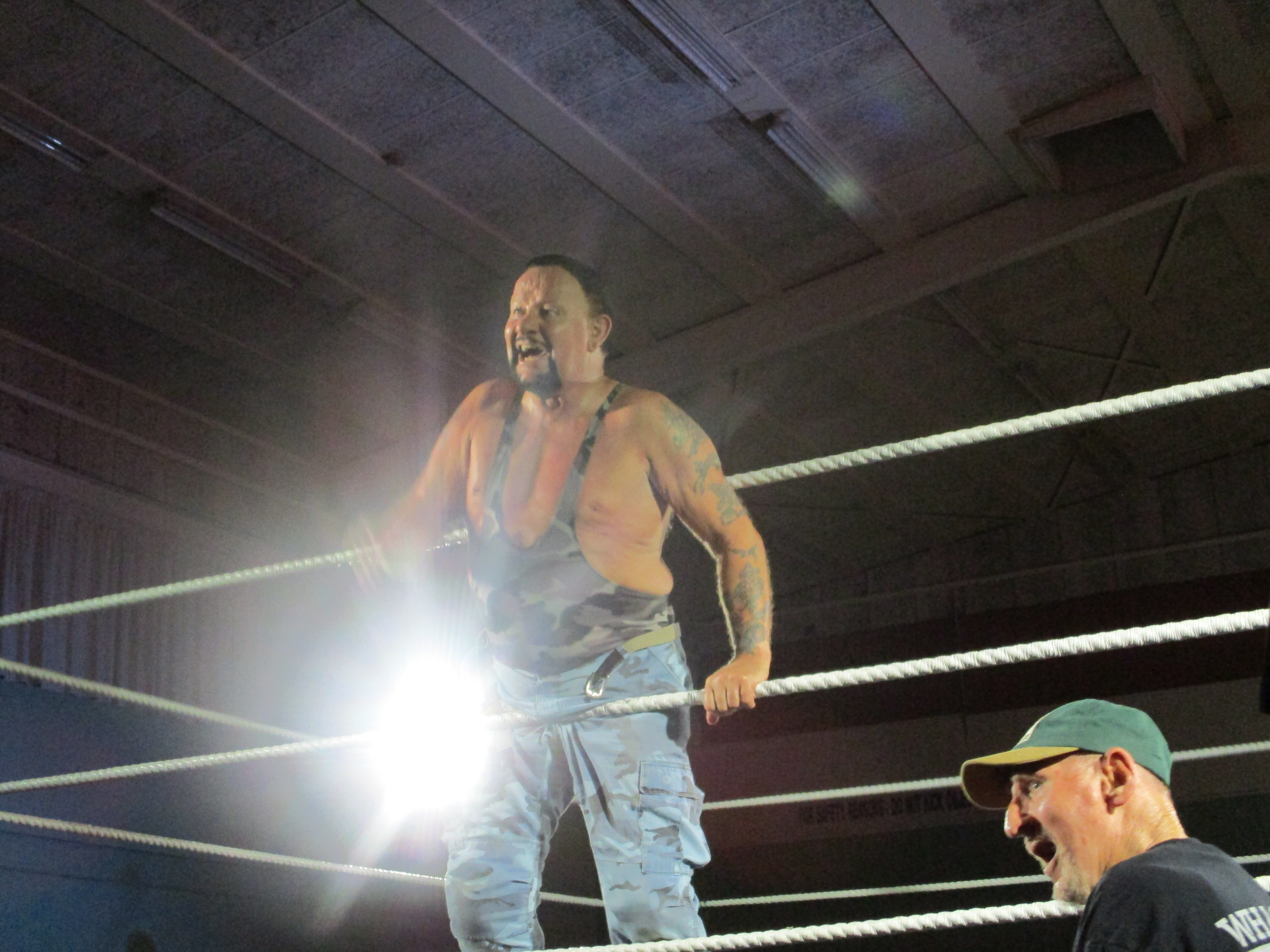 Bushwhacker Luke, appearing at IPW's Kiwi As Mate show, with Bushwhacker Butch below